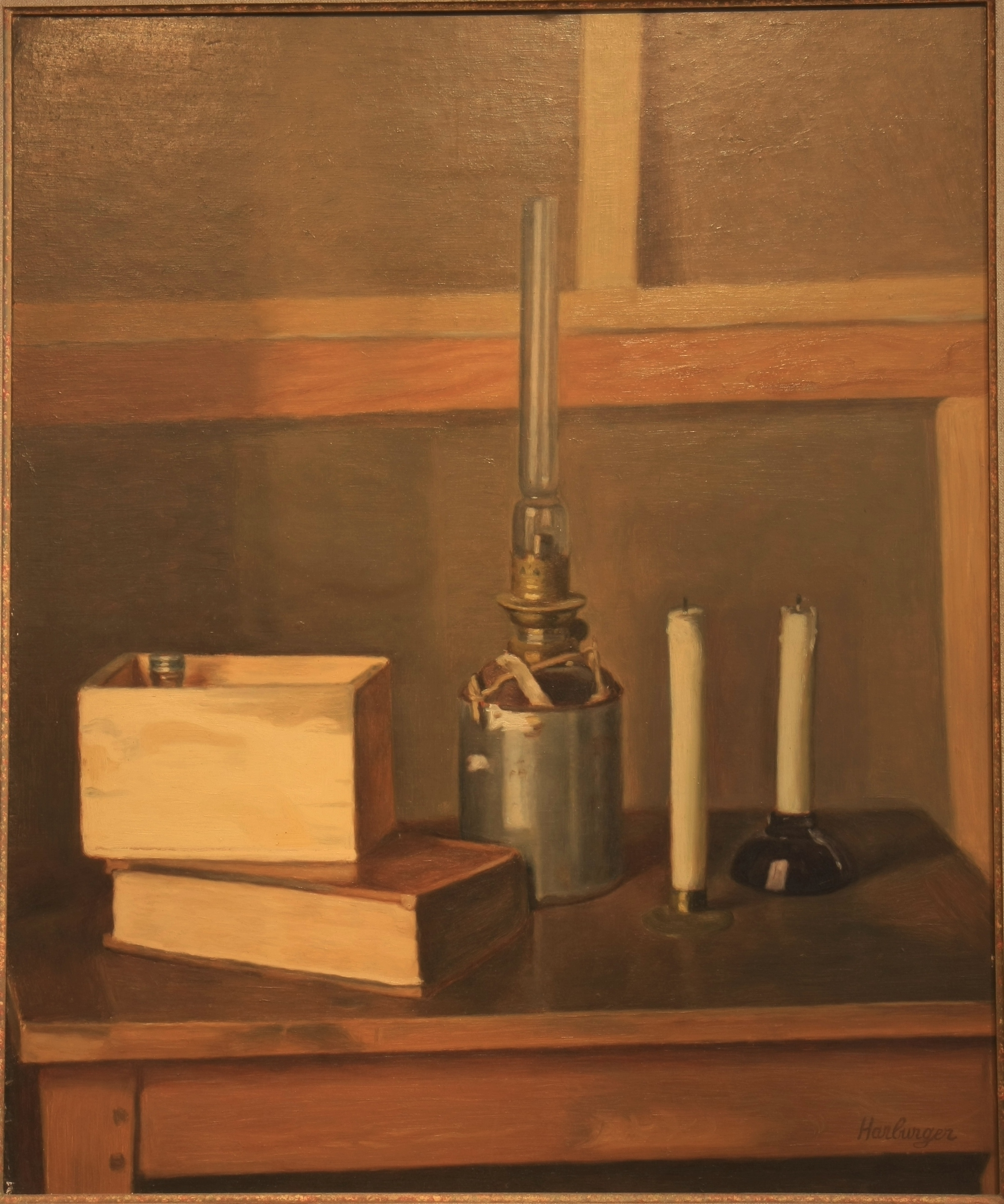 This painting is emblematic of figurative representation by Francis Harburger until the 1950s